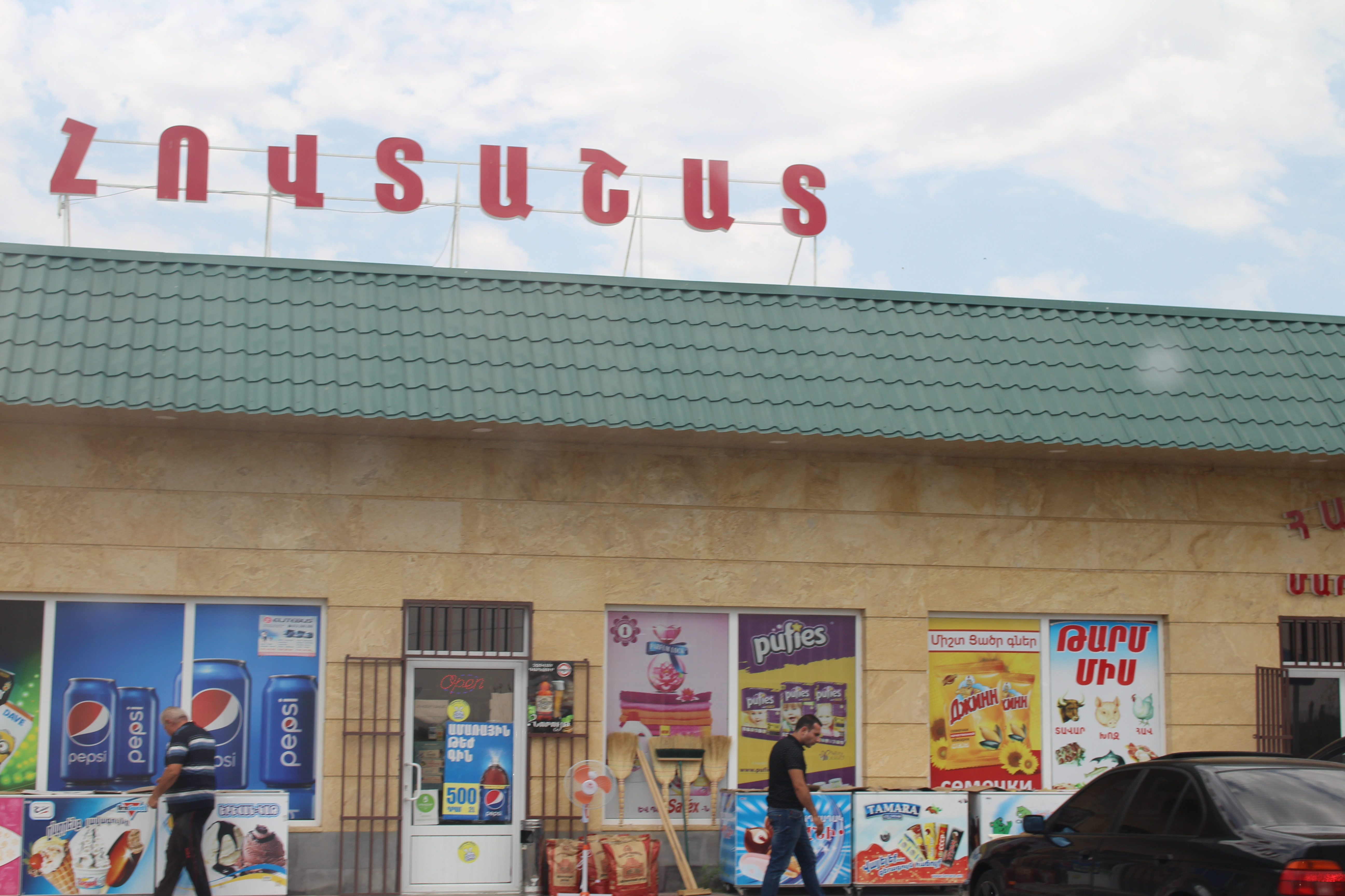 A mini market in Hovtashat village.